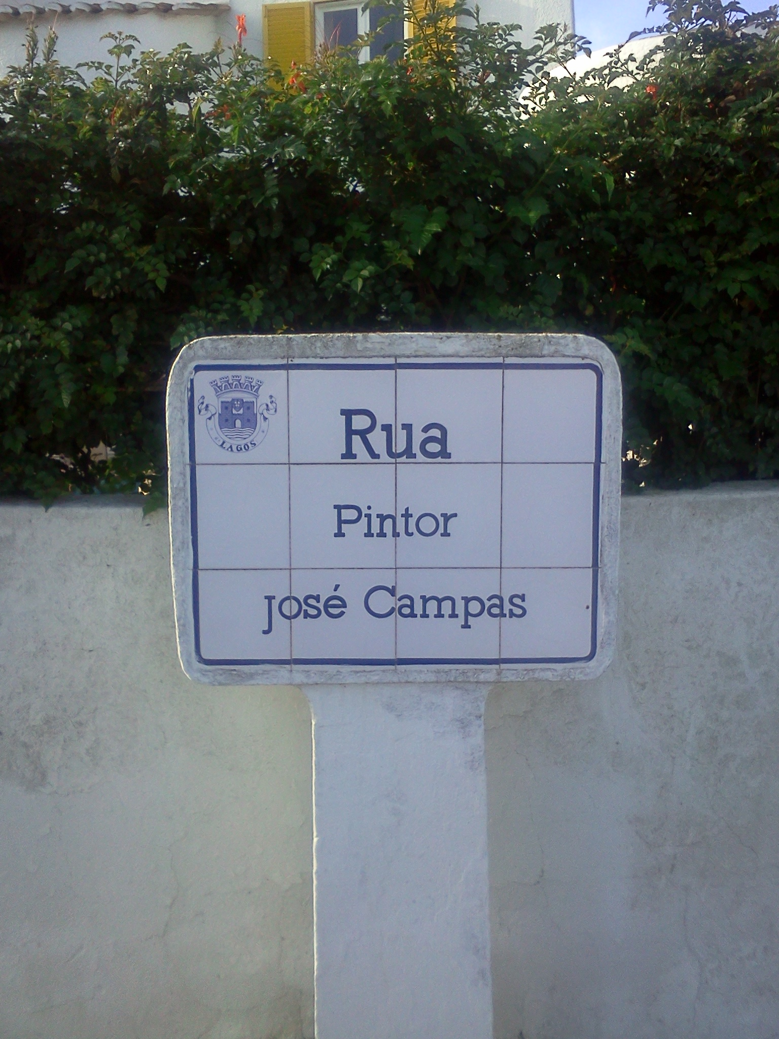 Street sign of Rua Pintor José Campas, in the city of Lagos, in southern Portugal.